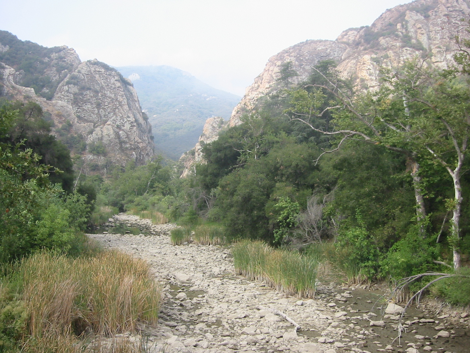 Malibu Creek — within Malibu Creek State Park, in the Santa Monica Mountains, Southern California. With California chaparral and woodlands and riparian habitats. The watershed of Malibu Creek is largely protected wohtin units od the Santa Monica Mountains National Recreation Area. "It looks like it's sometimes a pretty substantial stream, but this year — one of the driest in California's recorded history — it's mostly dried up on surface flow. Nonetheless, some pools remain – to swimmers' delight."